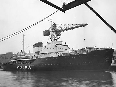 Finnish icebreaker Voima awaiting delivery at Wärtsilä Hietalahti shipyard in February 1954.